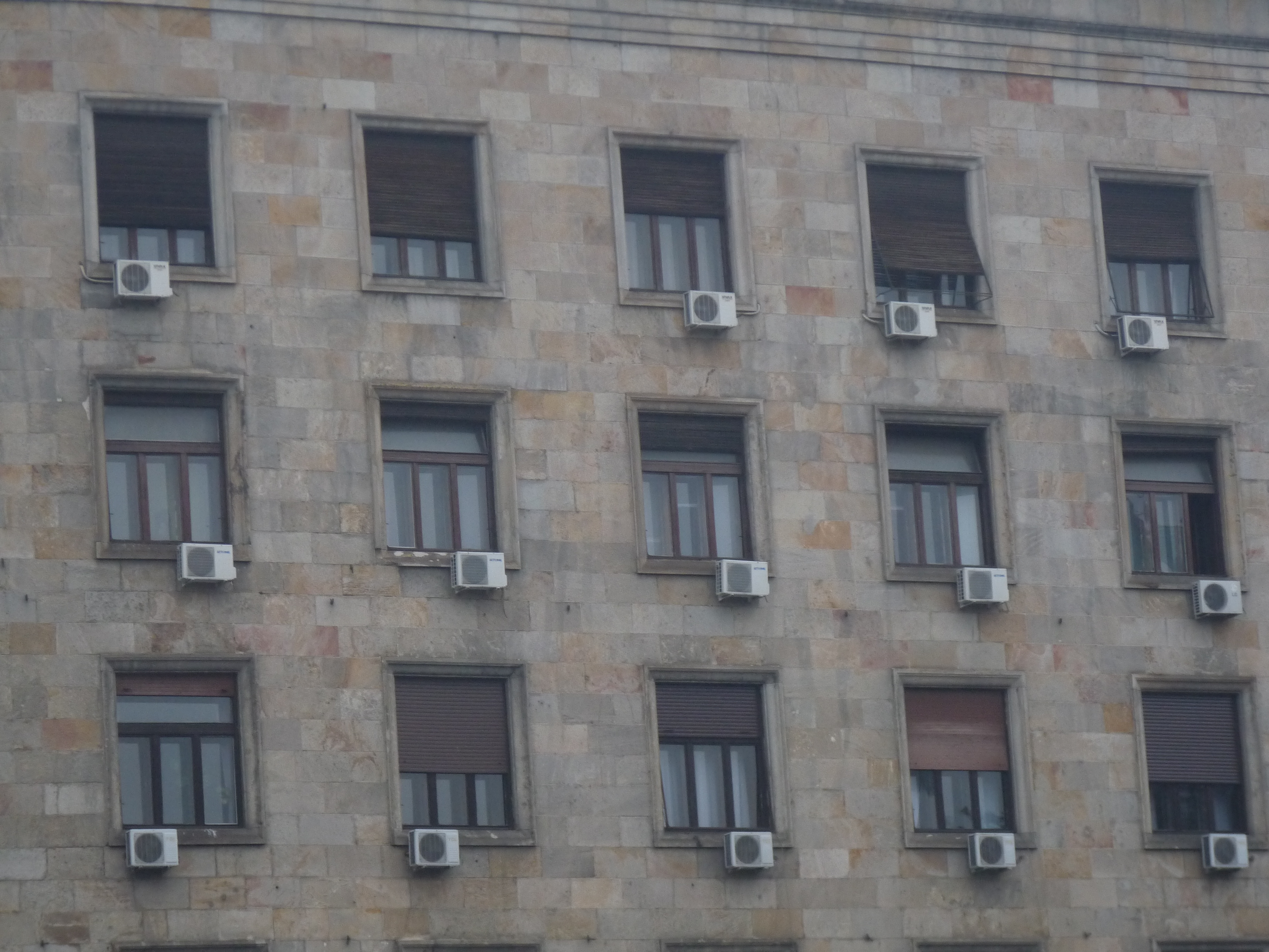 A wall full of conditioners on Dečanska Street in Beograd, October 13, 2012